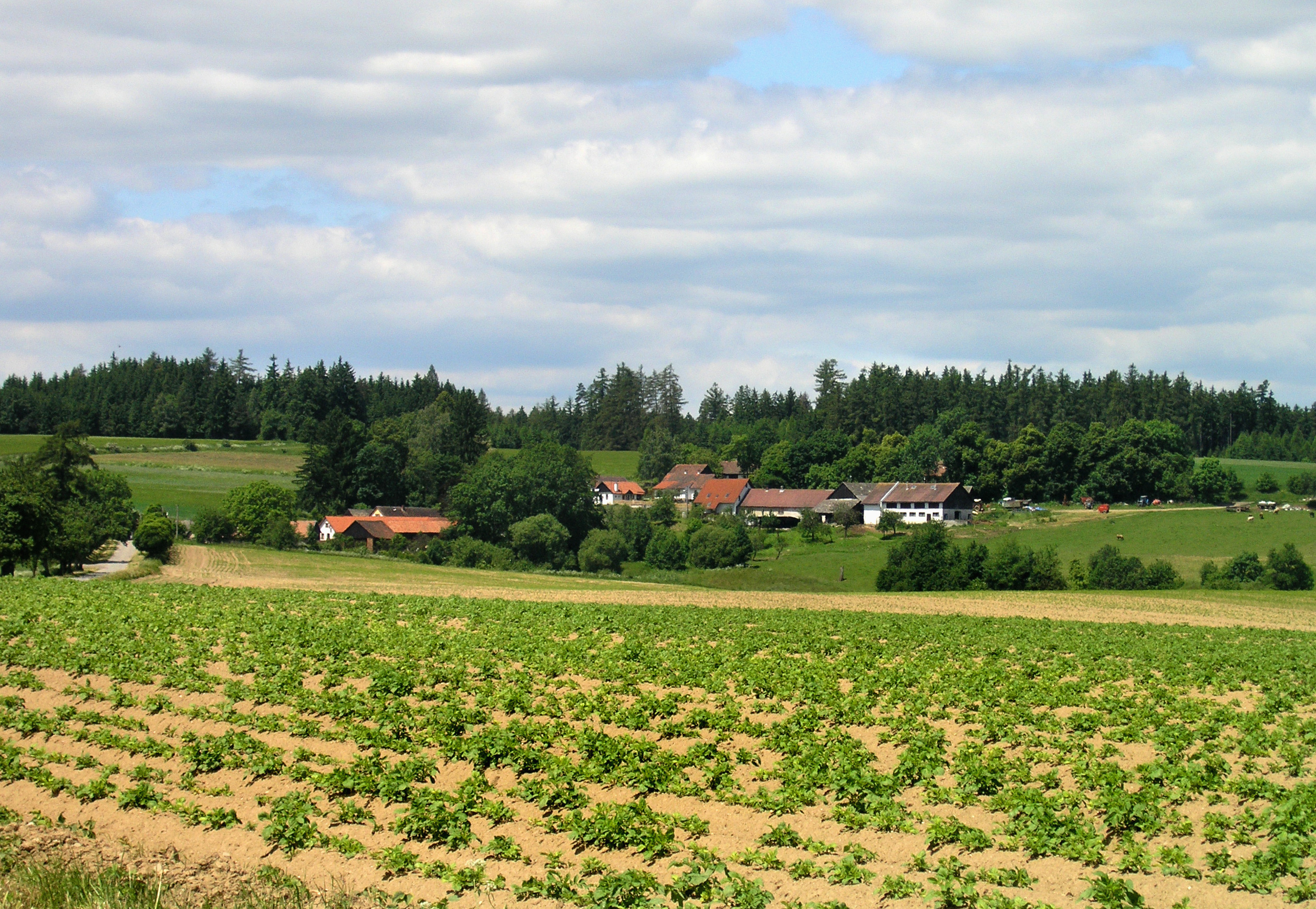 Skoranovice, part of Martinice u Onšova village, Czech Republic